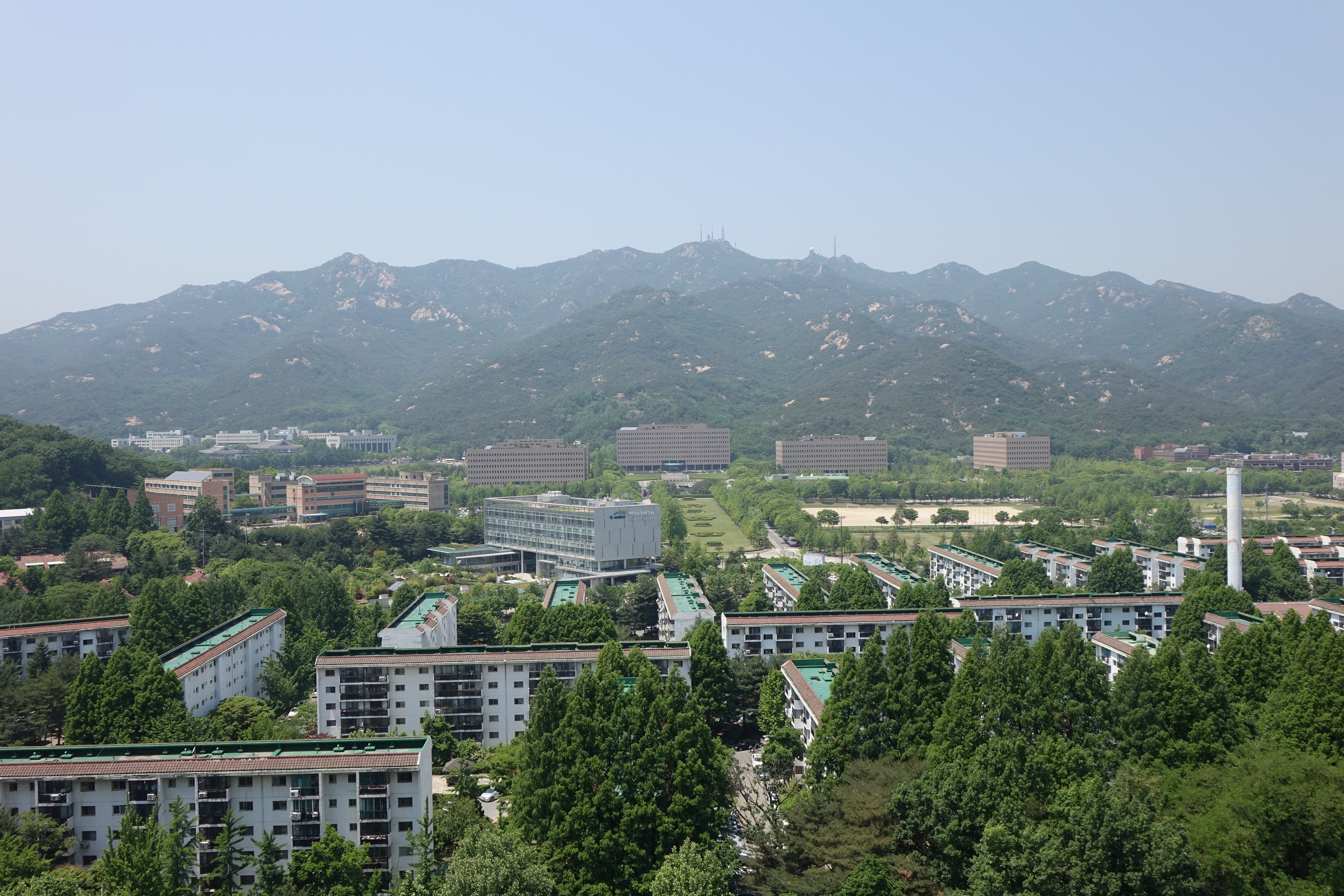 본인은 해당 작품의 저작권자로서, 이 저작물을 'CC0 1.0 보편적 퍼블릭 도메인 기증' 저작권으로 배포합니다. 이에 따라, 본인은 법이 정한 범위 내에서 저작인접권을 포함해 저작권법에 따라 전세계적으로 해당 저작물에 대해 본인이 갖는 일체의 권리를 포기함으로써 저작물을 퍼블릭 도메인으로 공개하였습니다. 본인의 허락을 구하지 않아도 이 저작물을 상업적인 목적을 포함 모든 목적으로 복사, 수정, 배포, 실연하실 수 있습니다. 단 사진에 사람이 있는 경우 사용 전에 해당 인물의 동의가 필요합니다. 2015년 6월 8일. 최광모.